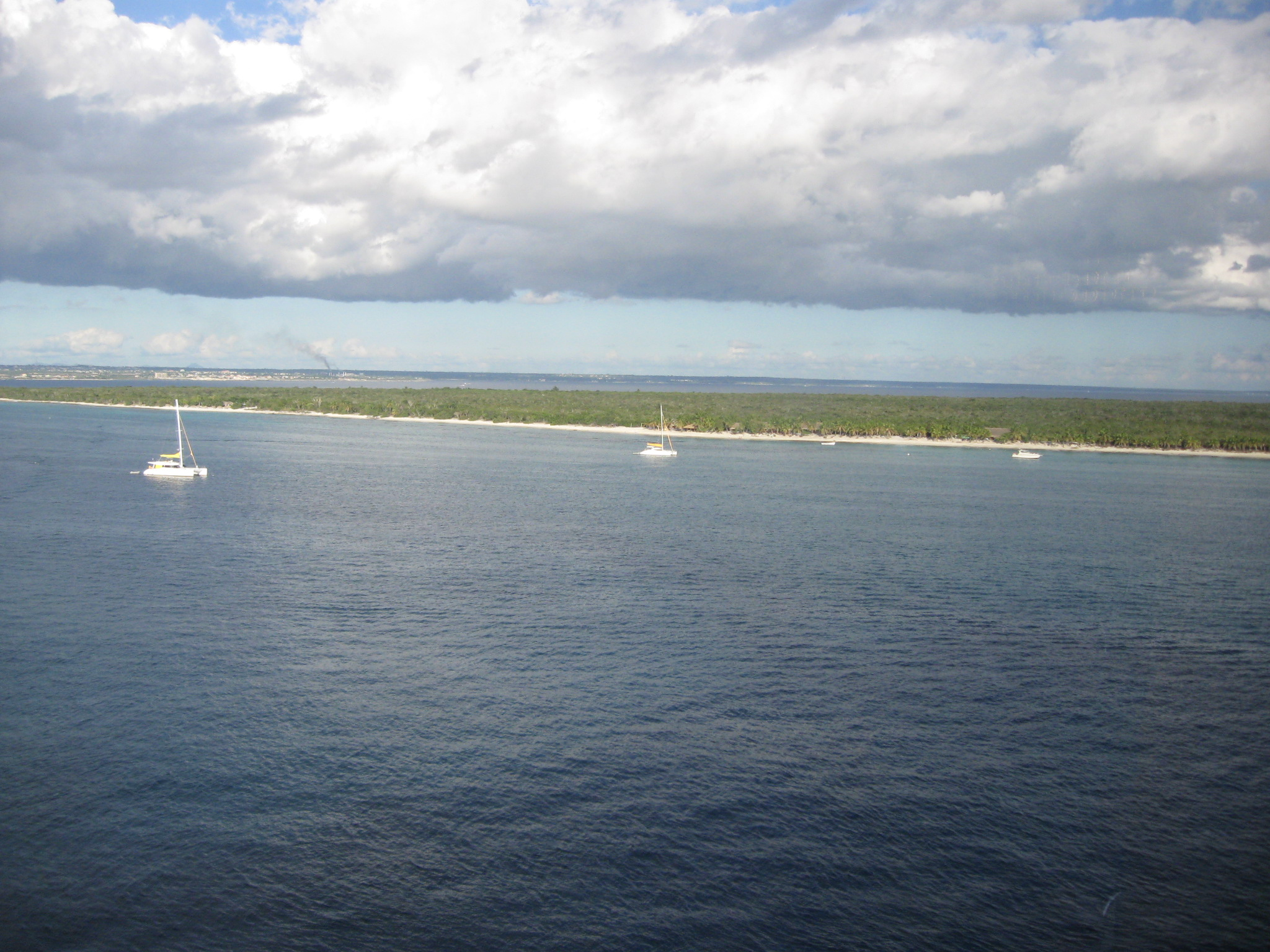 I took this picture of Catalina Island, looking towards the Dominican Republic "mainland" (i.e., La Romana).